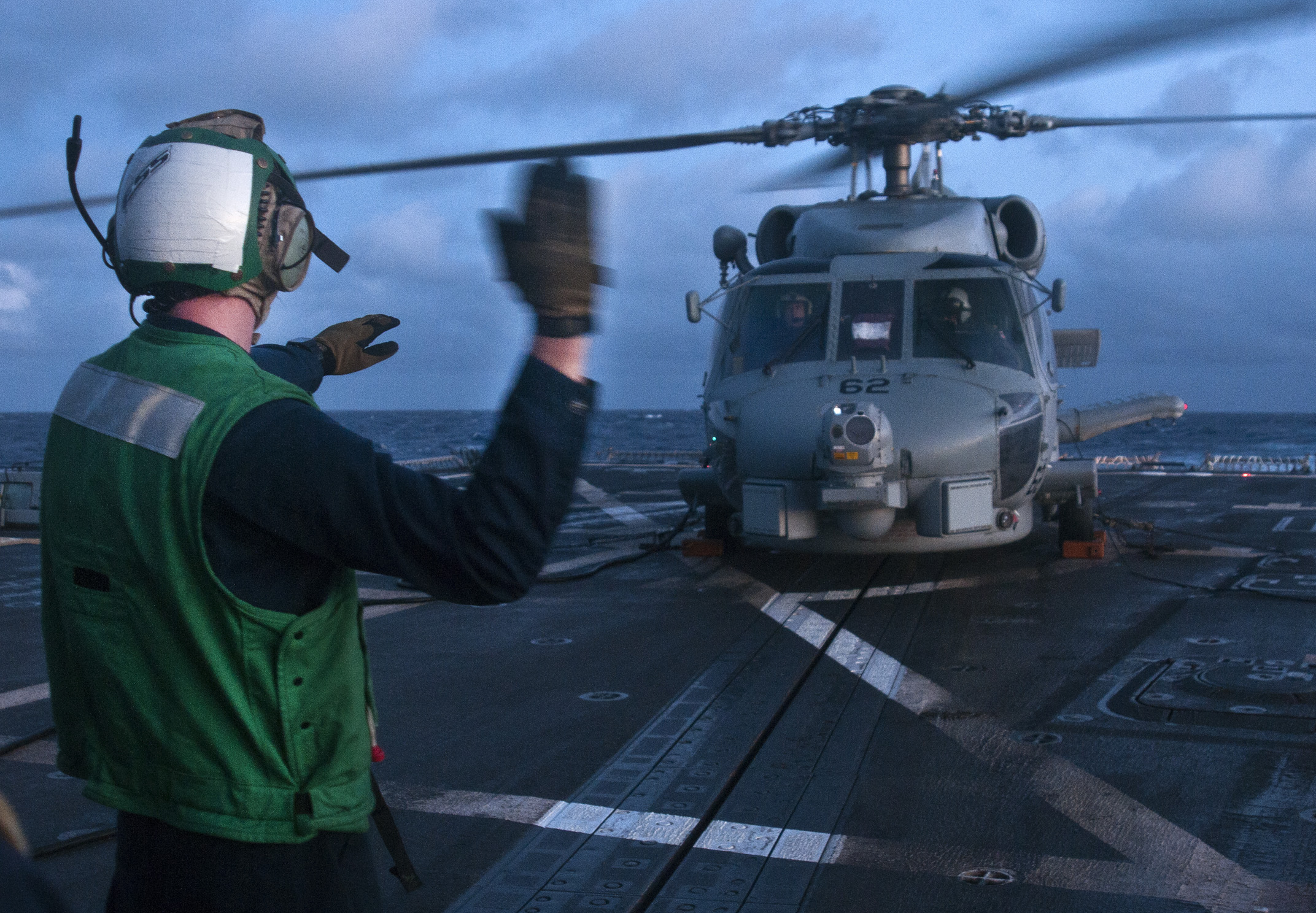 PACIFIC OCEAN (Nov. 11, 2011) A sailor aboard the guided-missile destroyer USS Chafee (DDG 90) signals to the pilots of an SH-60B Sea Hawk helicopter during the integrated maritime exercise Koa Kai. Chafee is participating in Koa Kai with the Japan Maritime Self-Defense Force helicopter destroyer JS Kurama (DDH 144) to prepare independent deployers in multiple warfare areas and provide training in a multi-ship environment. (U.S. Navy photo by Mass Communication Specialist Seaman Sean Furey/Released)